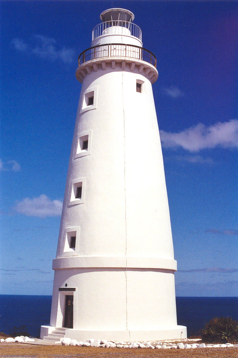 Cape Willoughby Lighthouse, Kangaroo Island, South Australia. Scan of a photo taken in January 2005 by Diceman.